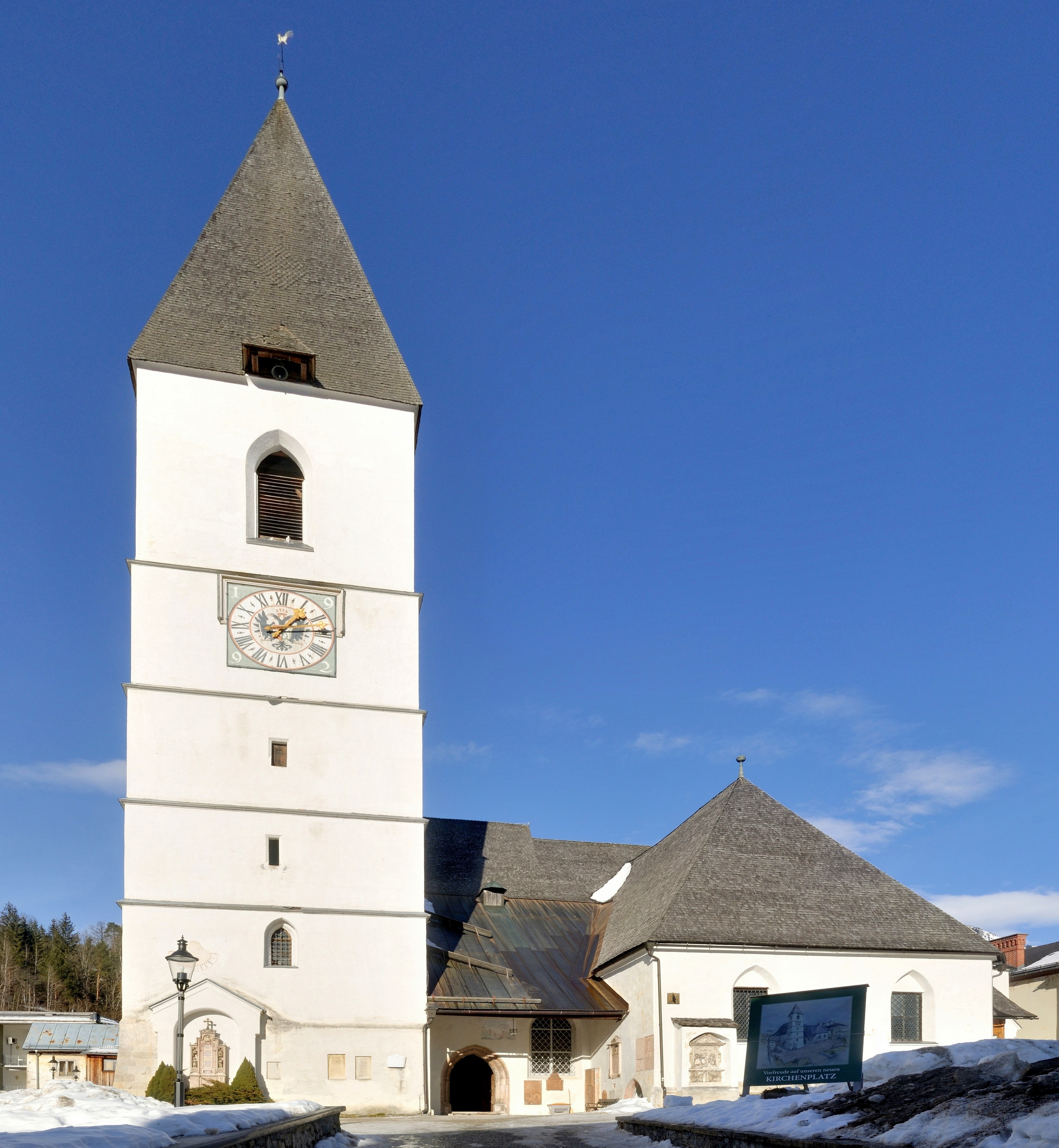 Bad Aussee: Chatolical Church